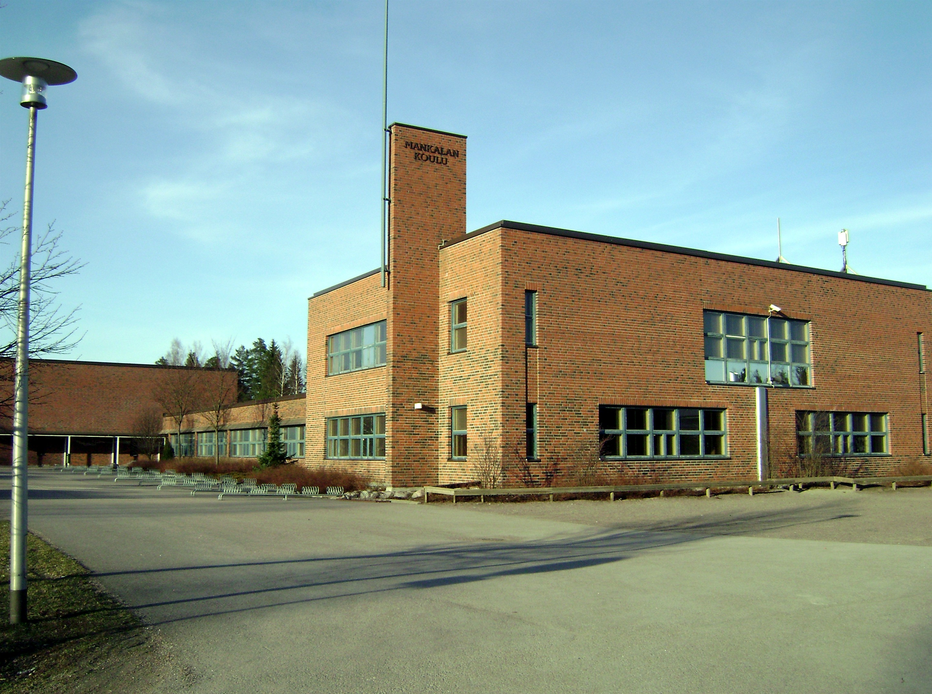 Mankala primary school in Järvenpää, Finland